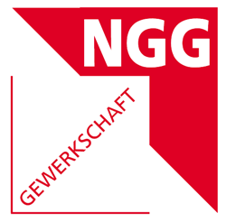 logo from Gewerkschaft Nahrung-Genuss-Gaststätten